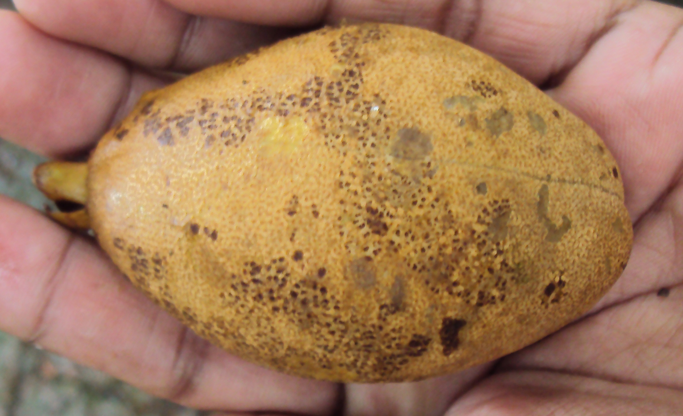 Vateria indica